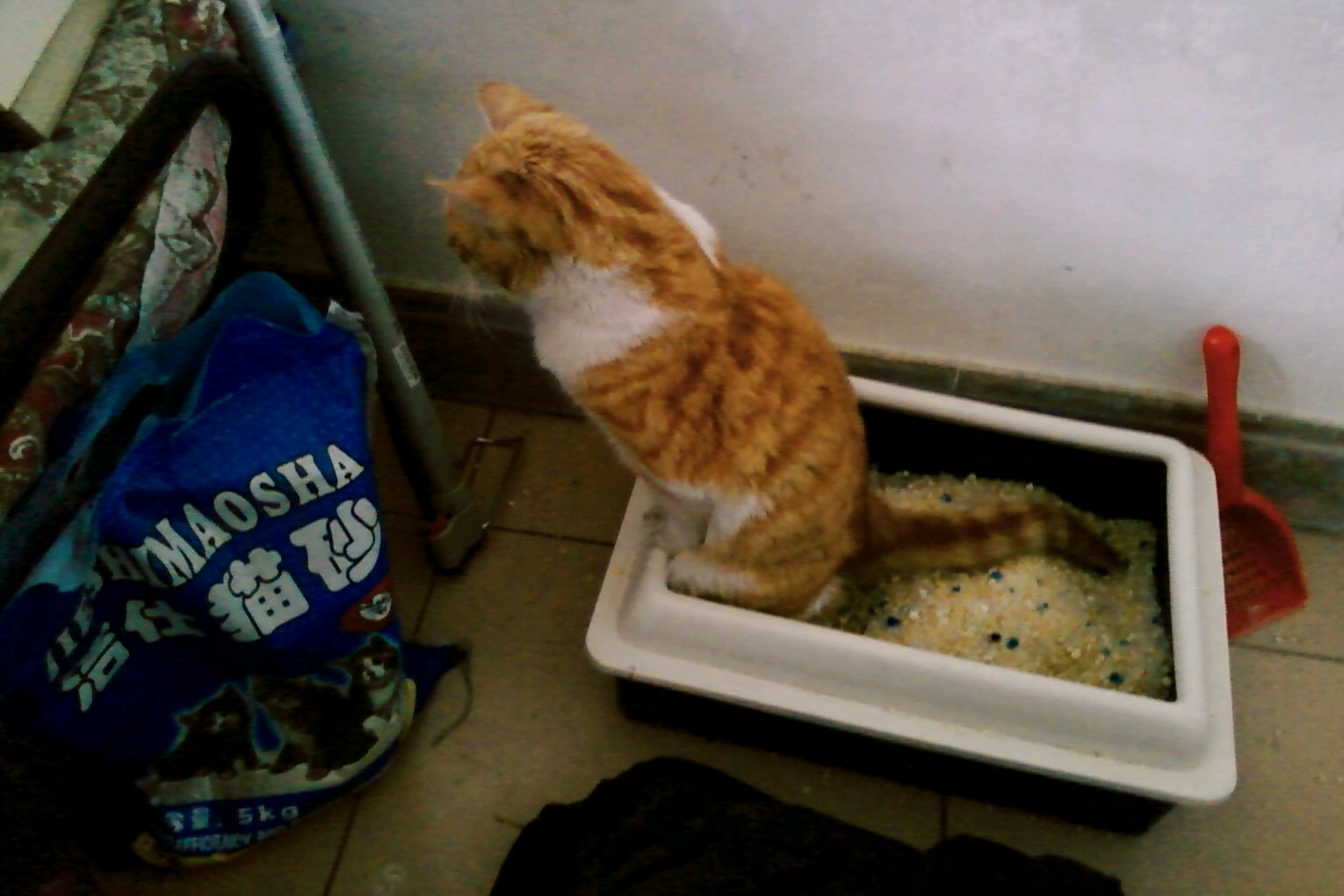 a cat and a Litter box